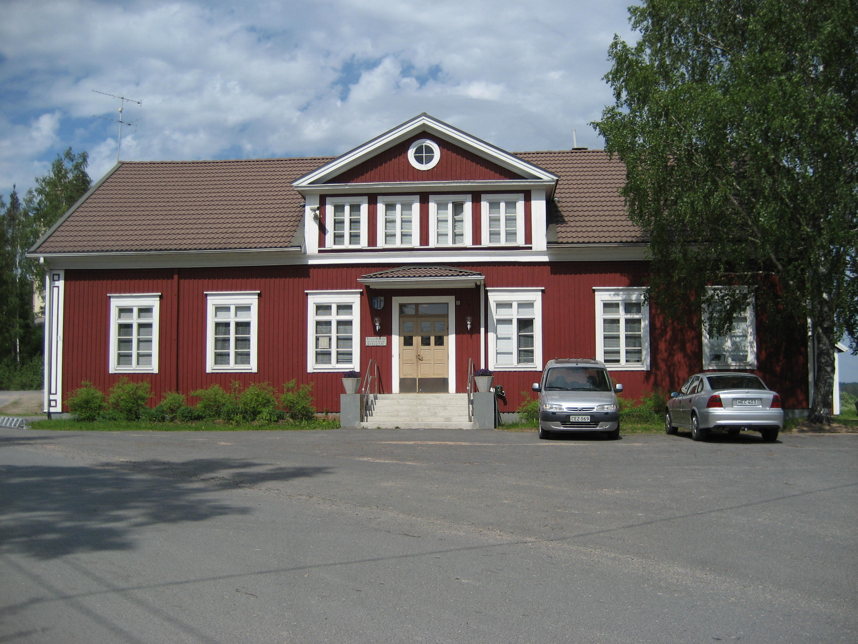 Town Hall Of Suodenniemi (in Finland), taken on 14 June 2006